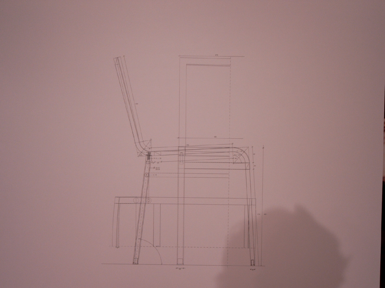 Drawing by Maarten Van Severen in MARTa in town of Herford, District of Herford, North Rhine-Westphalia, Germany.